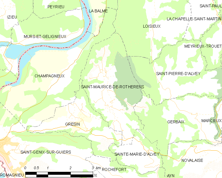 Map of French municipality Saint-Maurice-de-Rotherens